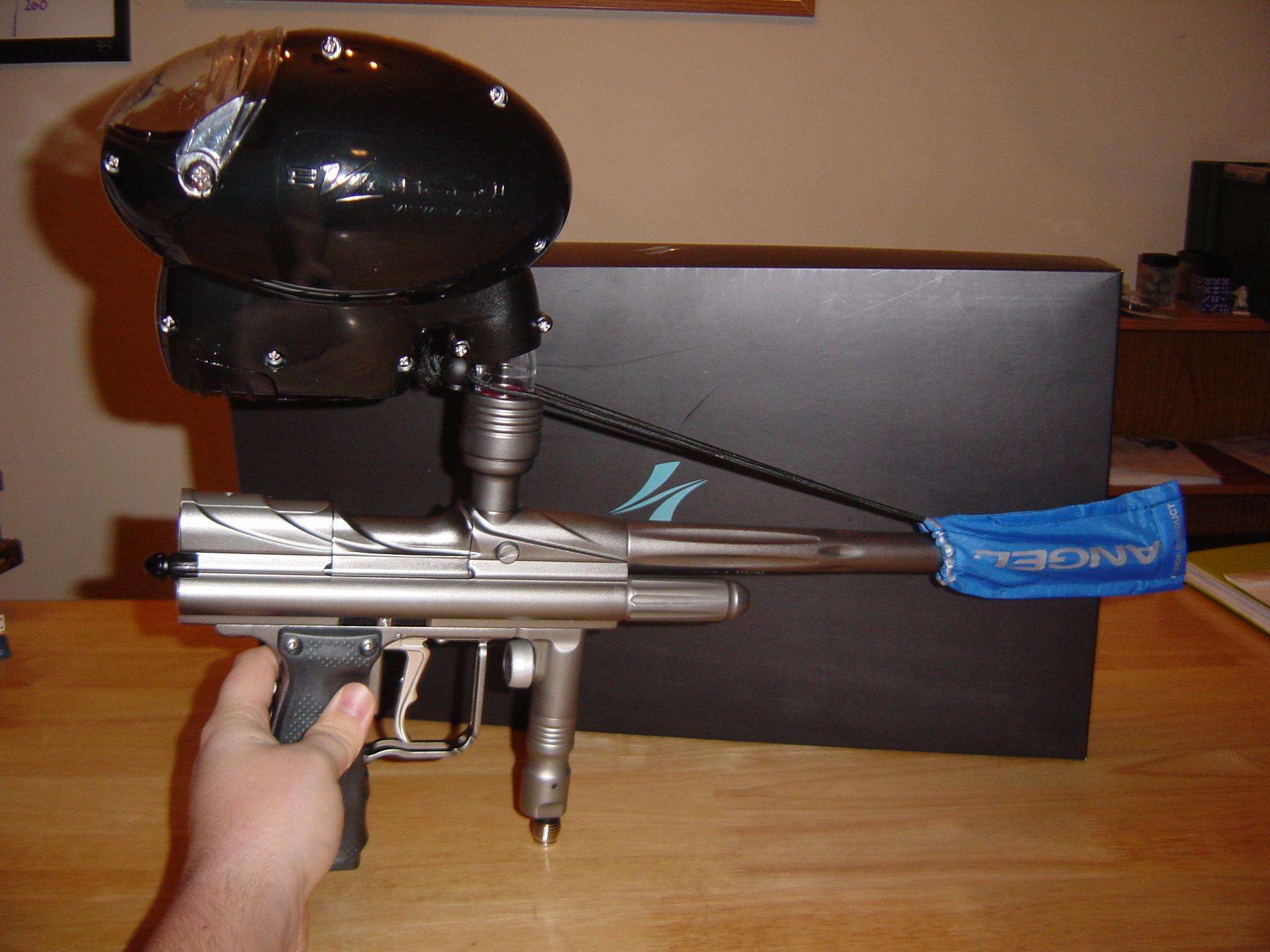 The Angel, an electropneumatic paintball gun. This particular gun is an Angel Force 4 (based on the A4). One of only 50 ever made in the "gunmetal grey" color, it was the personal gun of certified Angel technician Dan Reif. Note also the loader atop the gun, a Viewloader eVLution II.